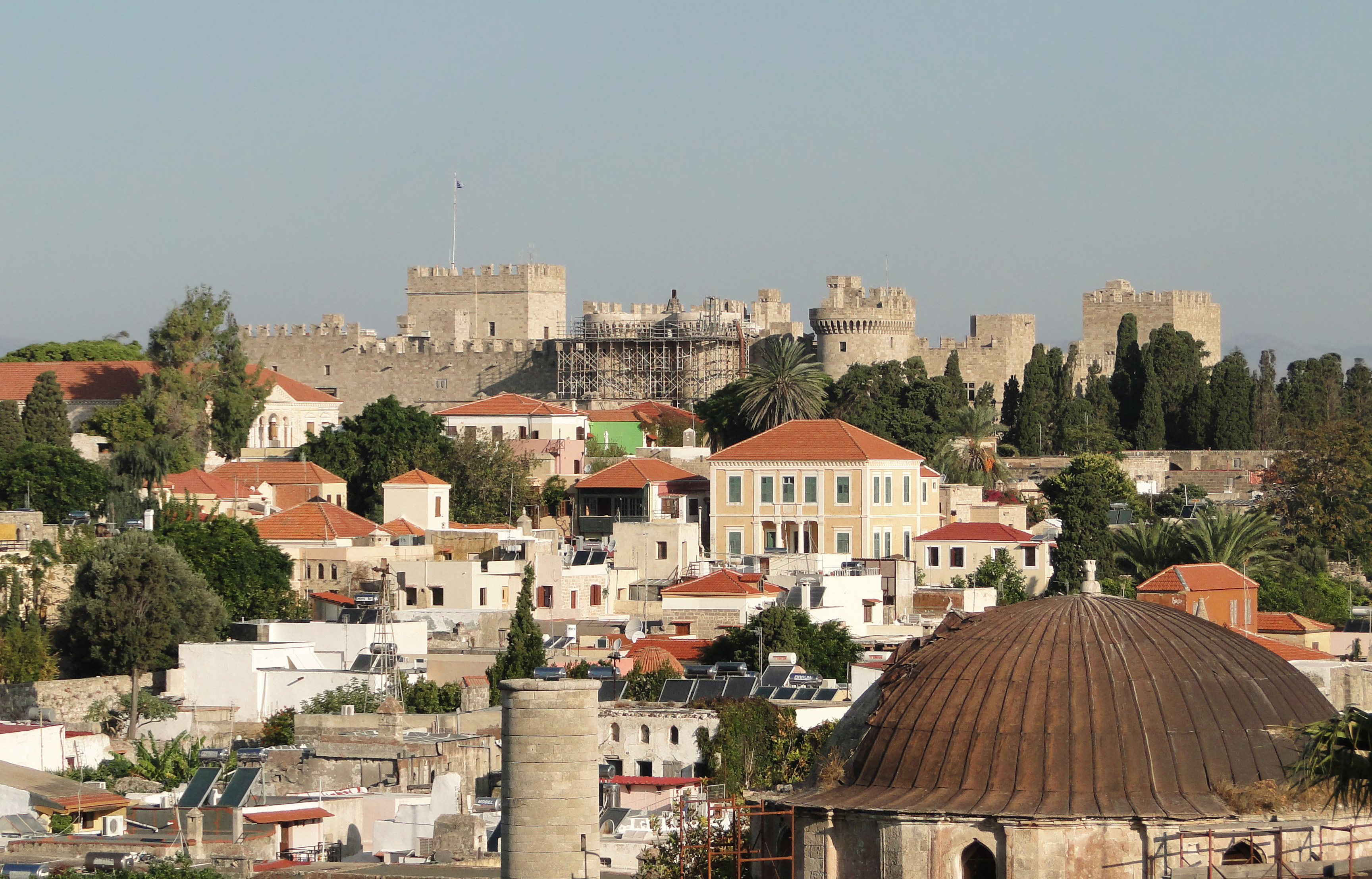 Medieval City of Rhodes, Greece